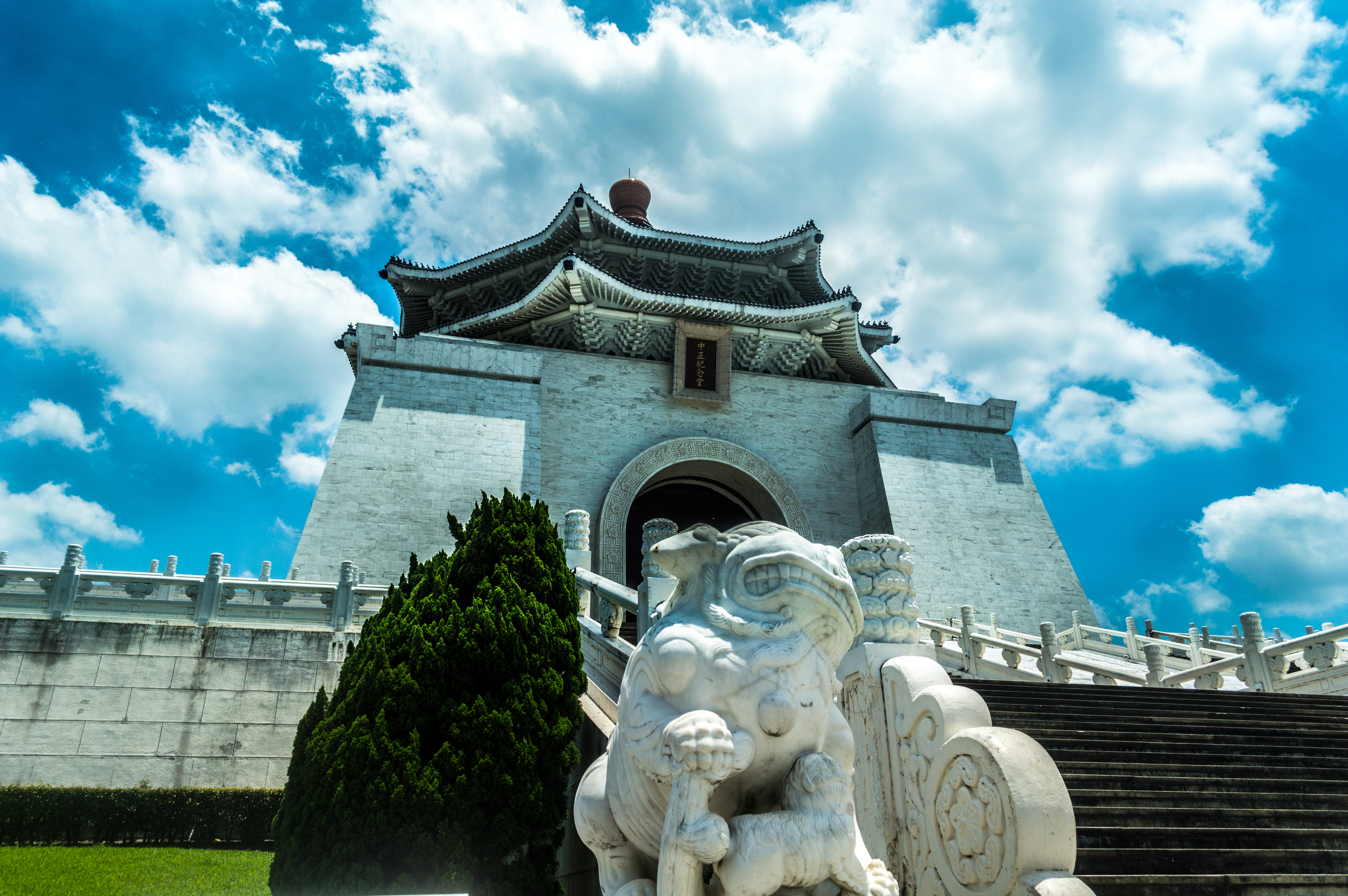 he Memorial Hall is white with four sides. The roof is blue and octagonal, a shape that picks up the symbolism of the number eight, a number traditionally associated in Asia with abundance and good fortune. Two sets of white stairs, each with 89 steps to represent Chiang's age at the time of his death, lead to the main entrance. The ground level of the memorial houses a library and museum documenting Chiang Kai-shek's life and career and exhibits related to Republic of China-era Chinese history, and Taiwan's history and development. The upper level contains the main hall, in which a large statue of Chiang Kai-shek is located, and where a guard mounting ceremony takes place in regular intervals.